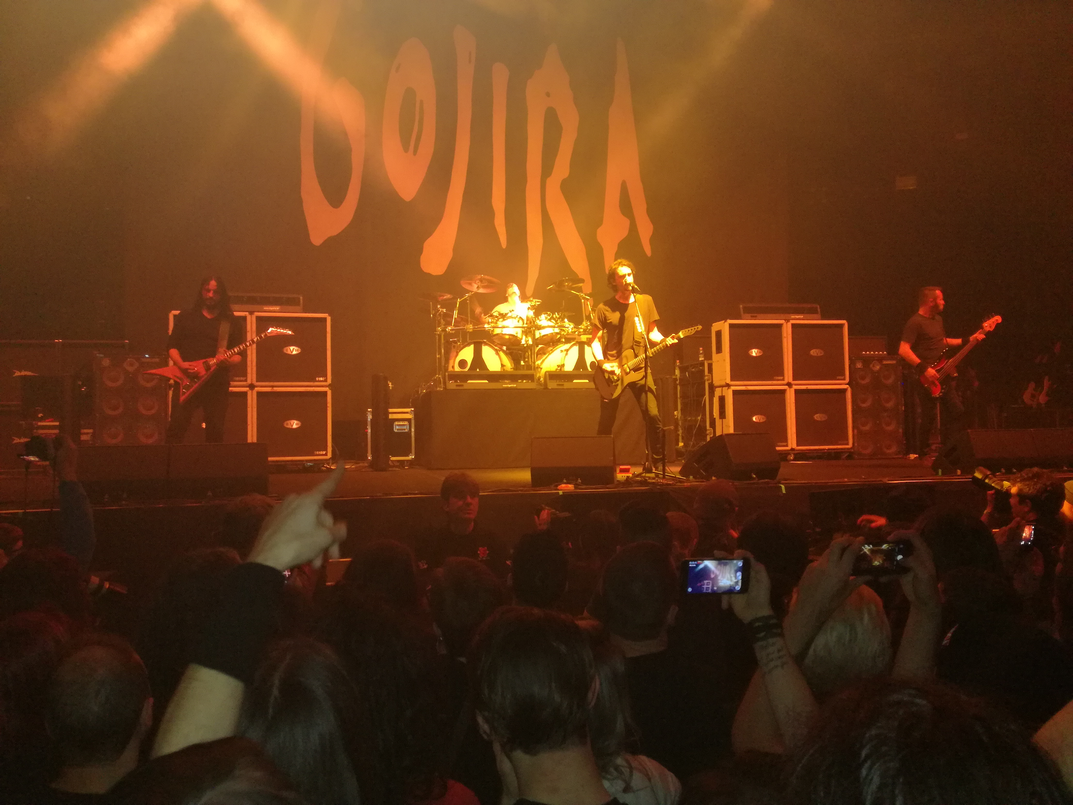 Gojira live at Unipol Arena in Bologna, Italy, on December 9th, 2016.